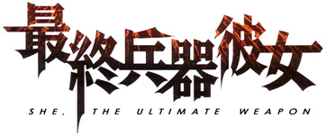 Saikano's logo